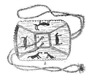 Fig. 376.—Buzz Toy